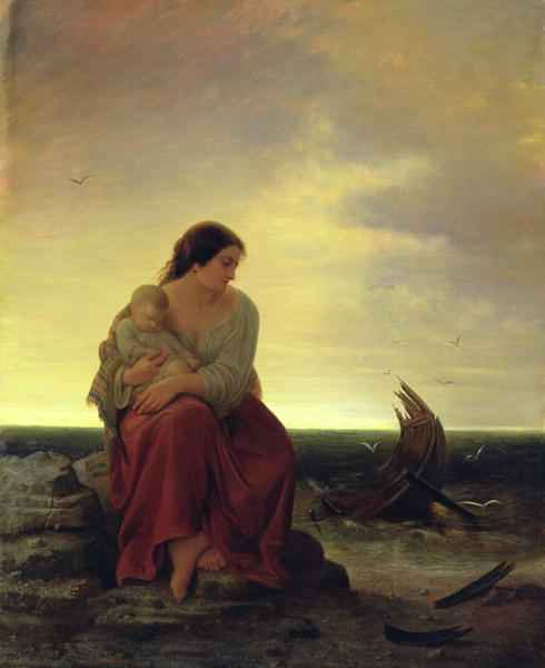 Oil painting by Julius Muhr. 47 x 58 cm. Hamburg, Hamburger Kunsthalle